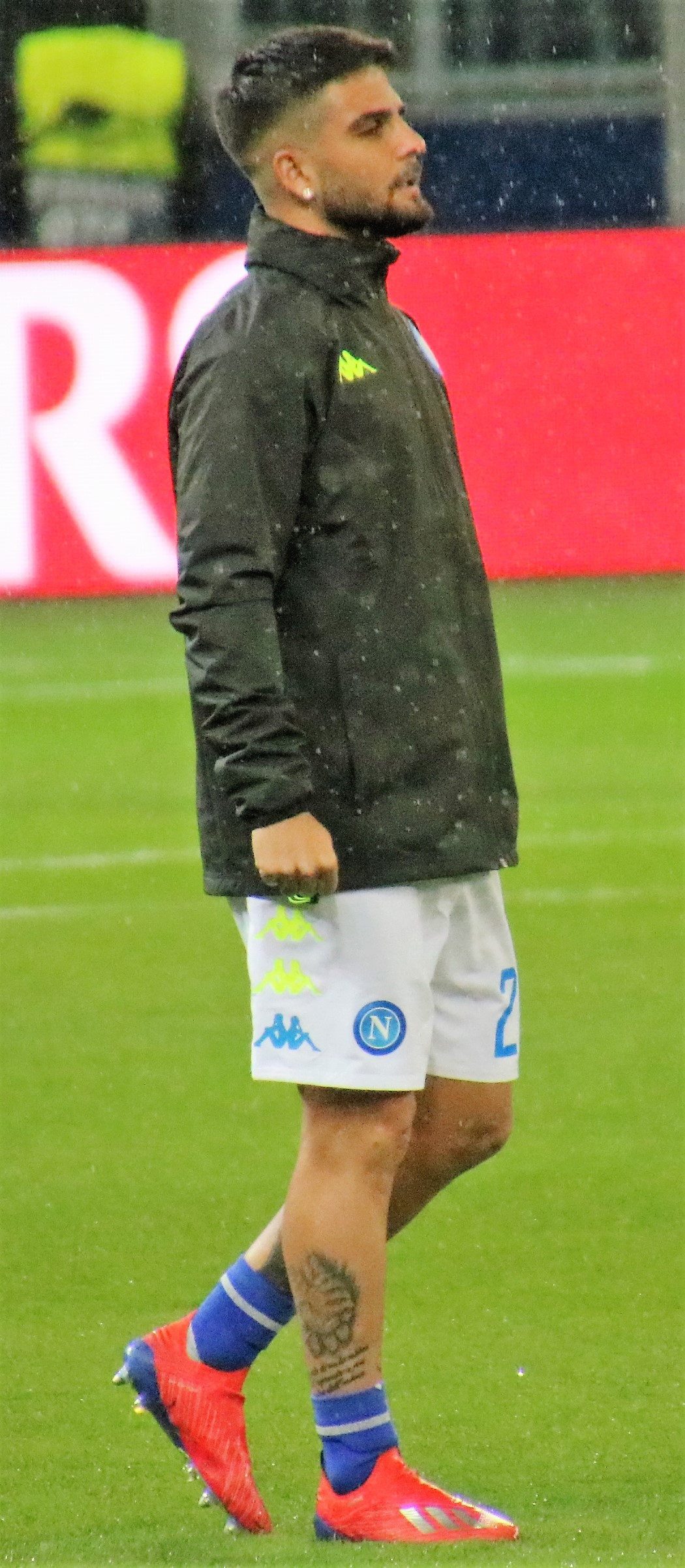 Euroleague round of 16 2nd leg